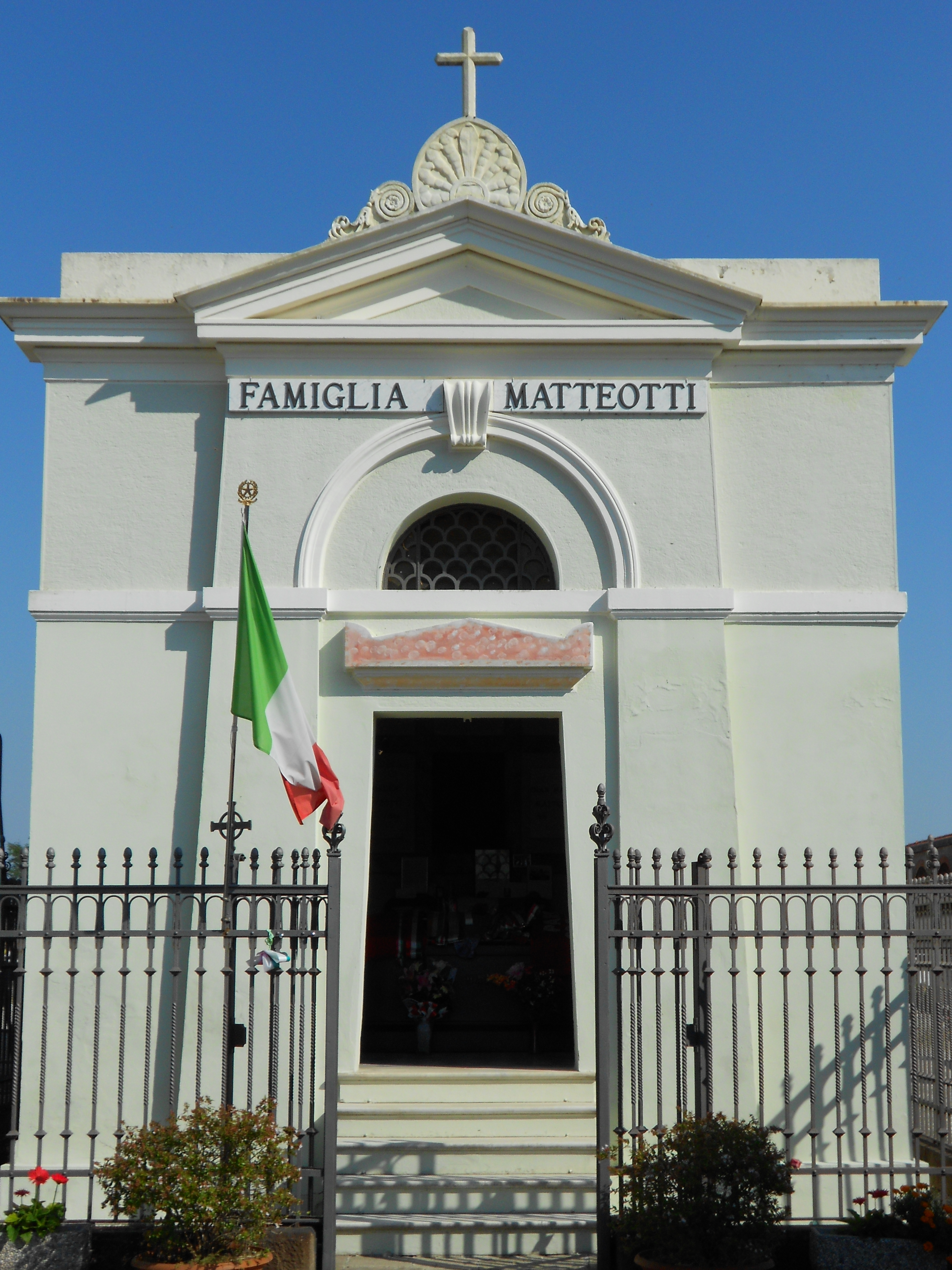 Tomb of Giacomo Matteotti, Fratta Polesine, Rovigo